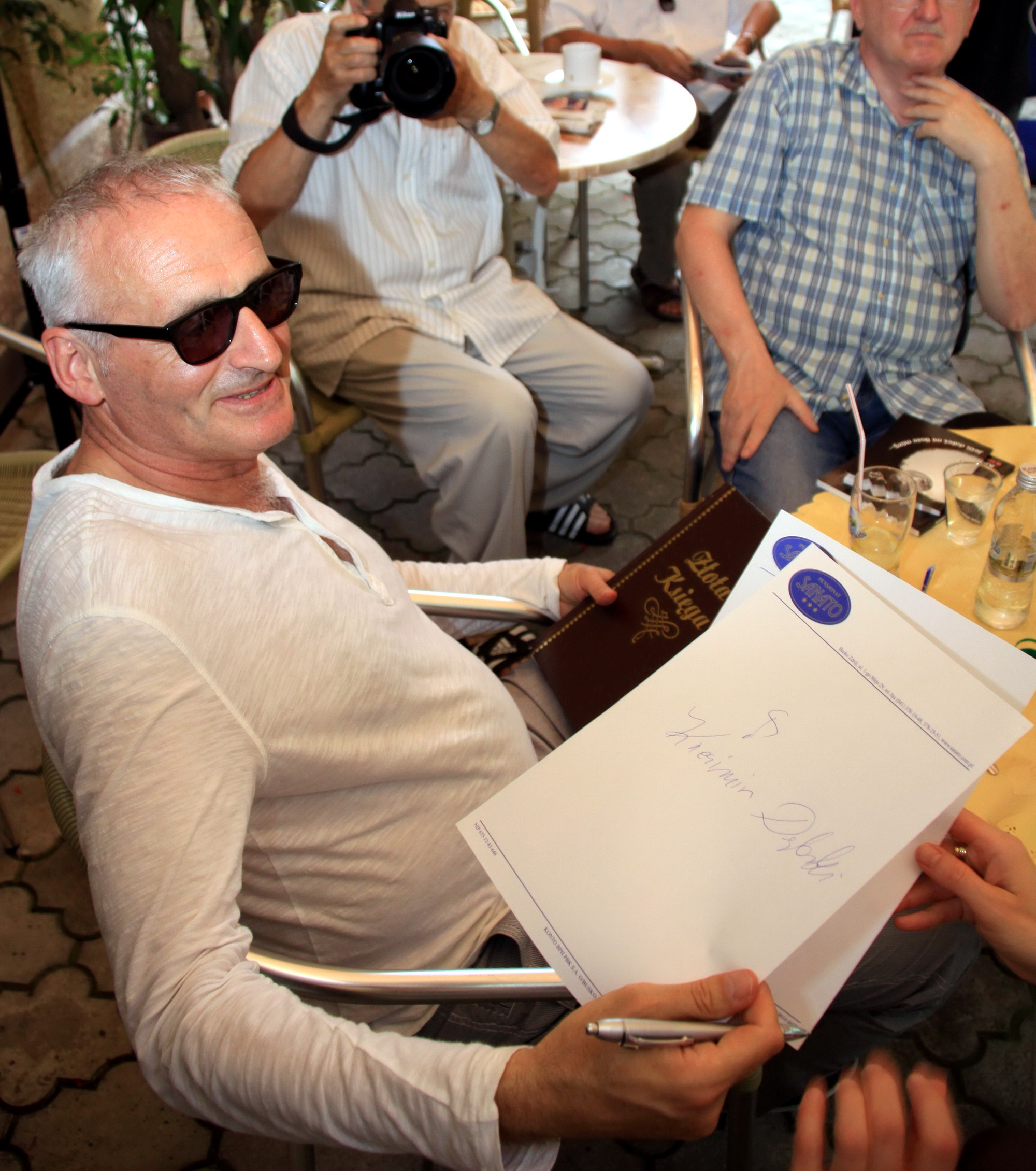 Krzesimir Dębski - composer, jazz violinist and conductor. Busko-Zdroj, Pension "Sanato" Café festival, 3 July 2012.